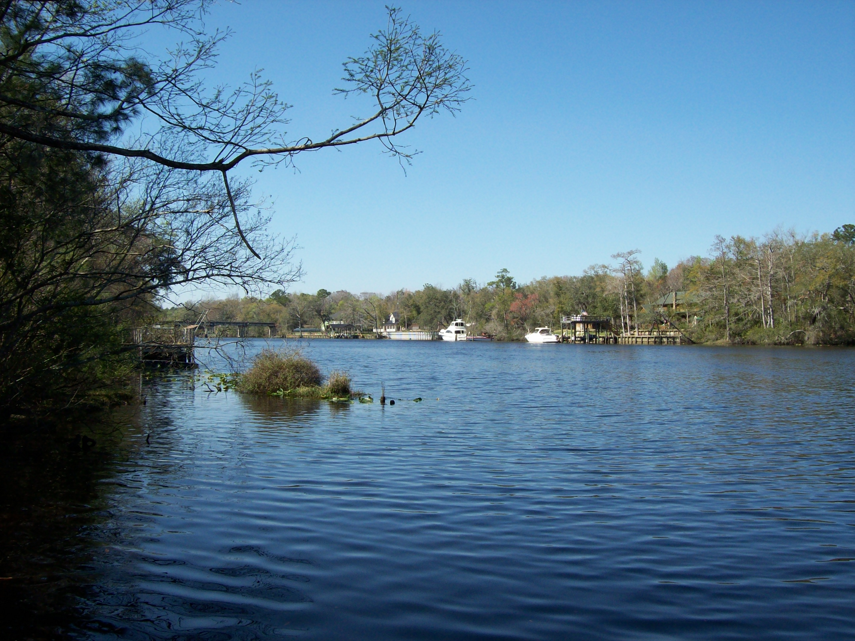 Black Creek (Flordia) taken at Old Ferry Rd. Boat Ramp, looking upstream.